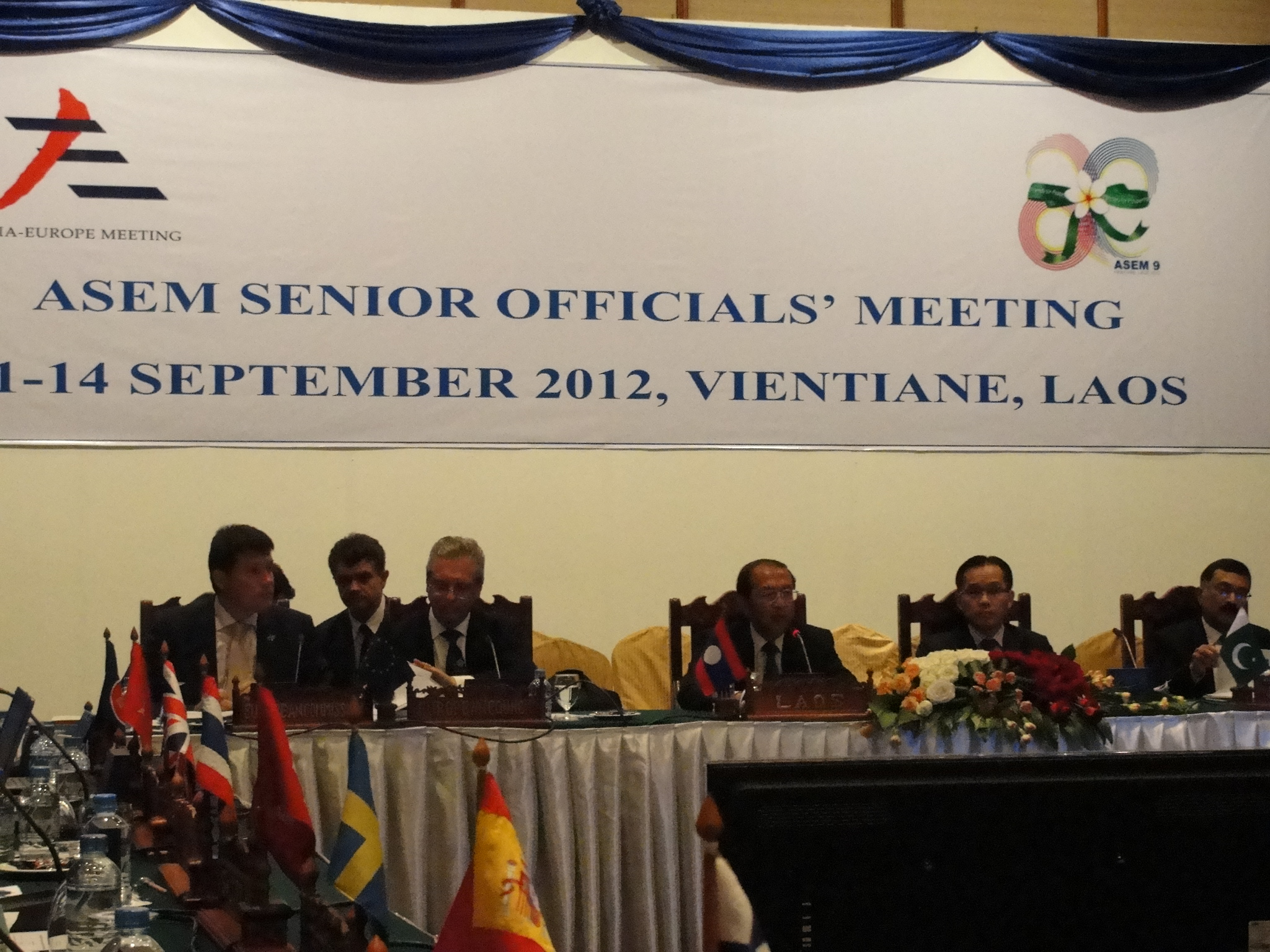 ASEM Senior Officials' Meeting in Vientiane, Septembrr 2012 (Ministry of Foreign Affairs of Laos)